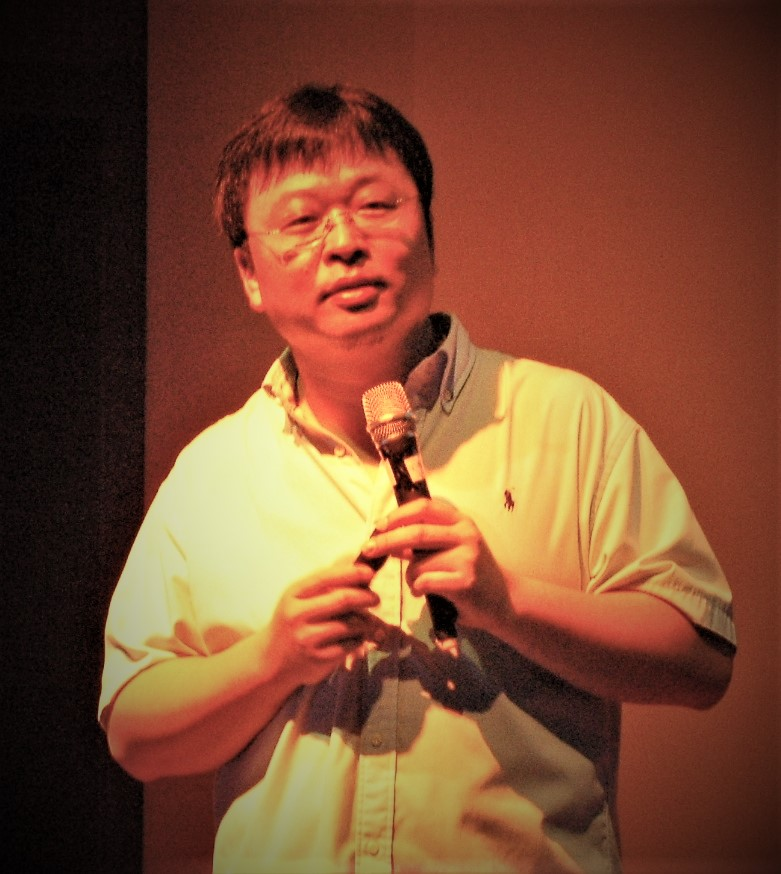 Luo Yonghao is giving a speech at Beijing Institute of Technology